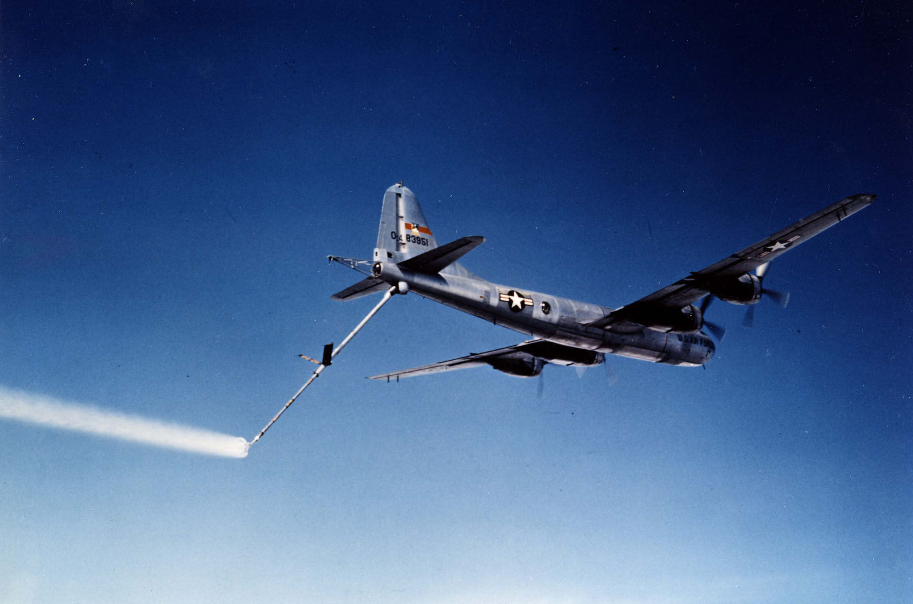 Boeing KB-29P, originally B-29-45-BA, S/N 44-83951. (U.S. Air Force photo) A U.S. Air Force Boeing KB-29P Superfortress , originally B-29-45-BA, s/n 44-83951. This photo was taken after 1954 since tail number begins "O" (for "obsolete", meaning more than ten years old). Note the aviation fuel streaking out of the refueling boom and the drogue basket for use with probe equipped receivers.